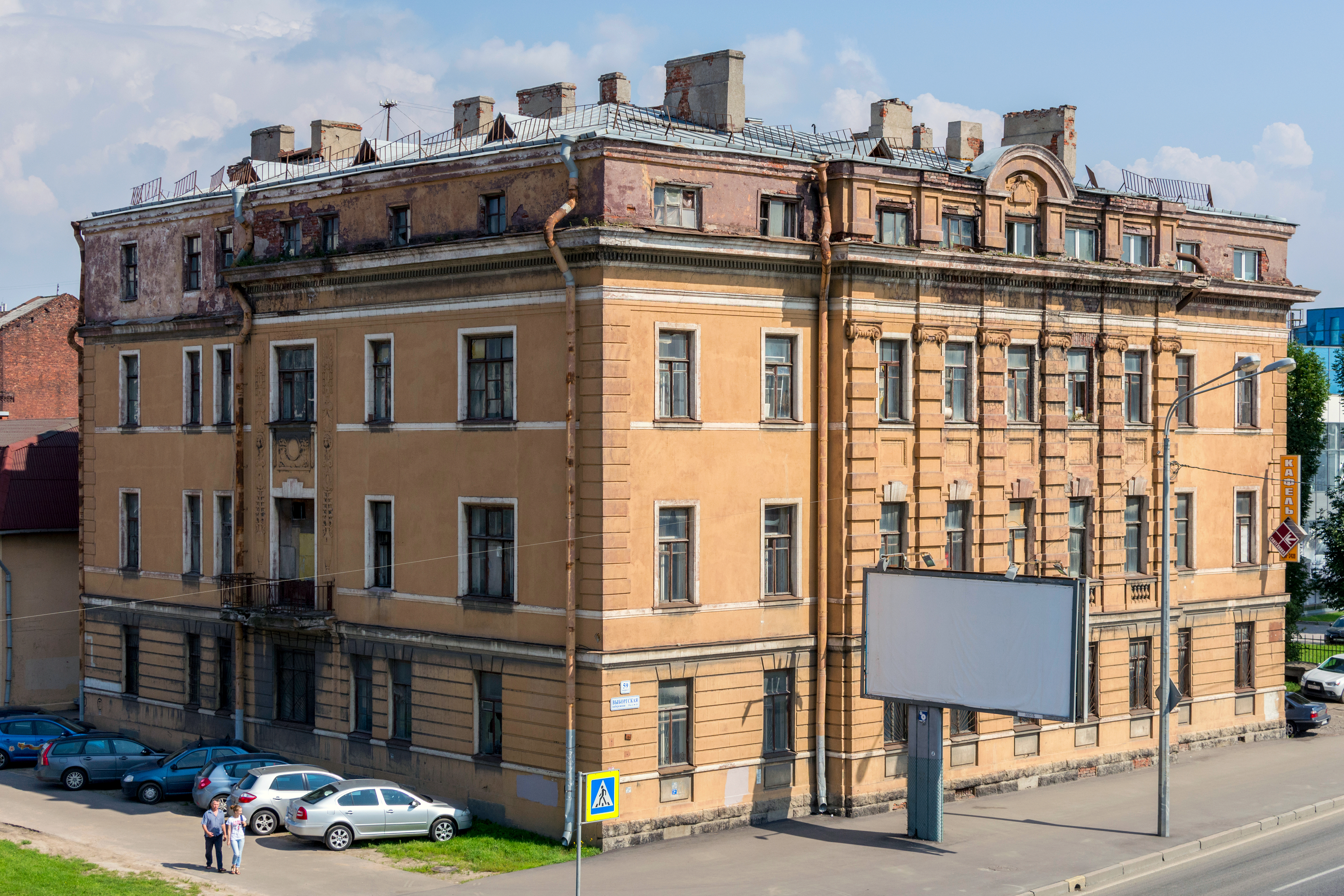 Residential House of Nikolaevskaya Manufactory at Vyborgskaya Embankment in Saint Petersburg